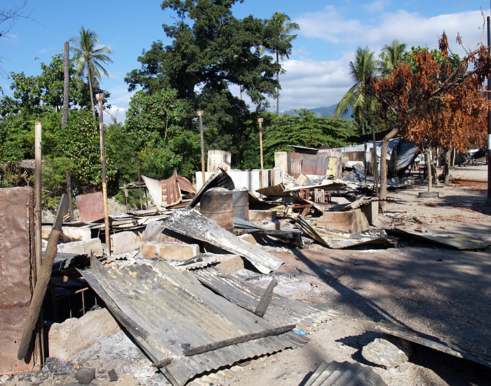 Damage along canalroad after crises in Dili 2006.